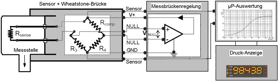 Simplified diagram of a Pirani vacuum gauge